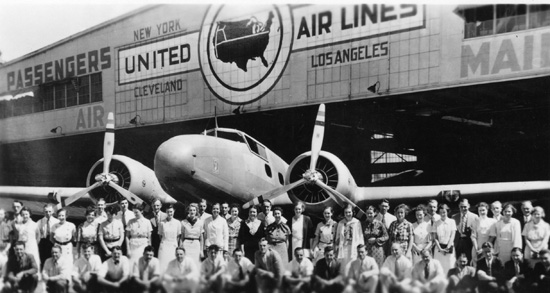 Crewmembers and United Airlines employees stand in front of a Boeing 247.